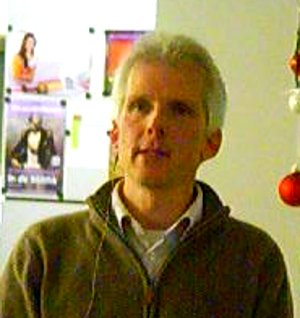 Dik van der Meulen lecturing at bblthk.nl in Wageningen